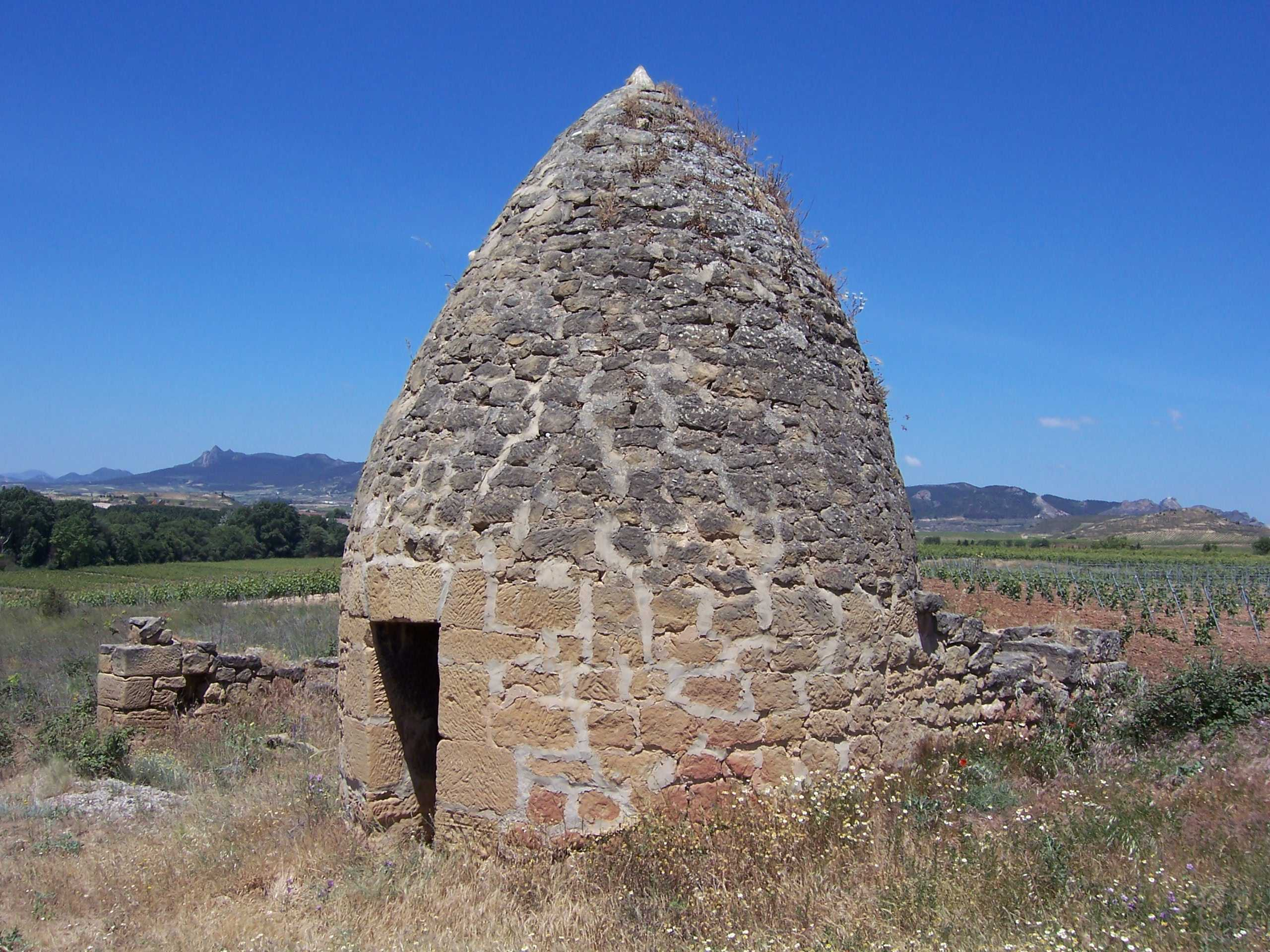 Guardaviñas near of Haro in La Rioja, Spain